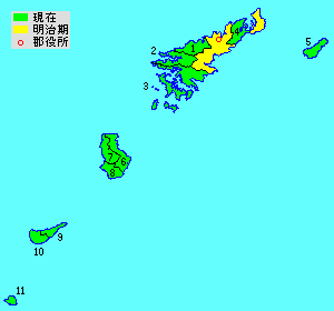 Location Map of Oshima District in Kagoshima Prefecture, Japan